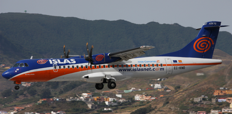 An ATR72 landing at Tenerife North airport.